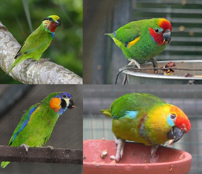 Four photographs for four species of fig parrots, left to right, clockwise: Scarlet-cheeked Fig Parrot, Double-eyed Fig Parrot, Large Fig Parrot, and Orange-breasted Fig Parrot.